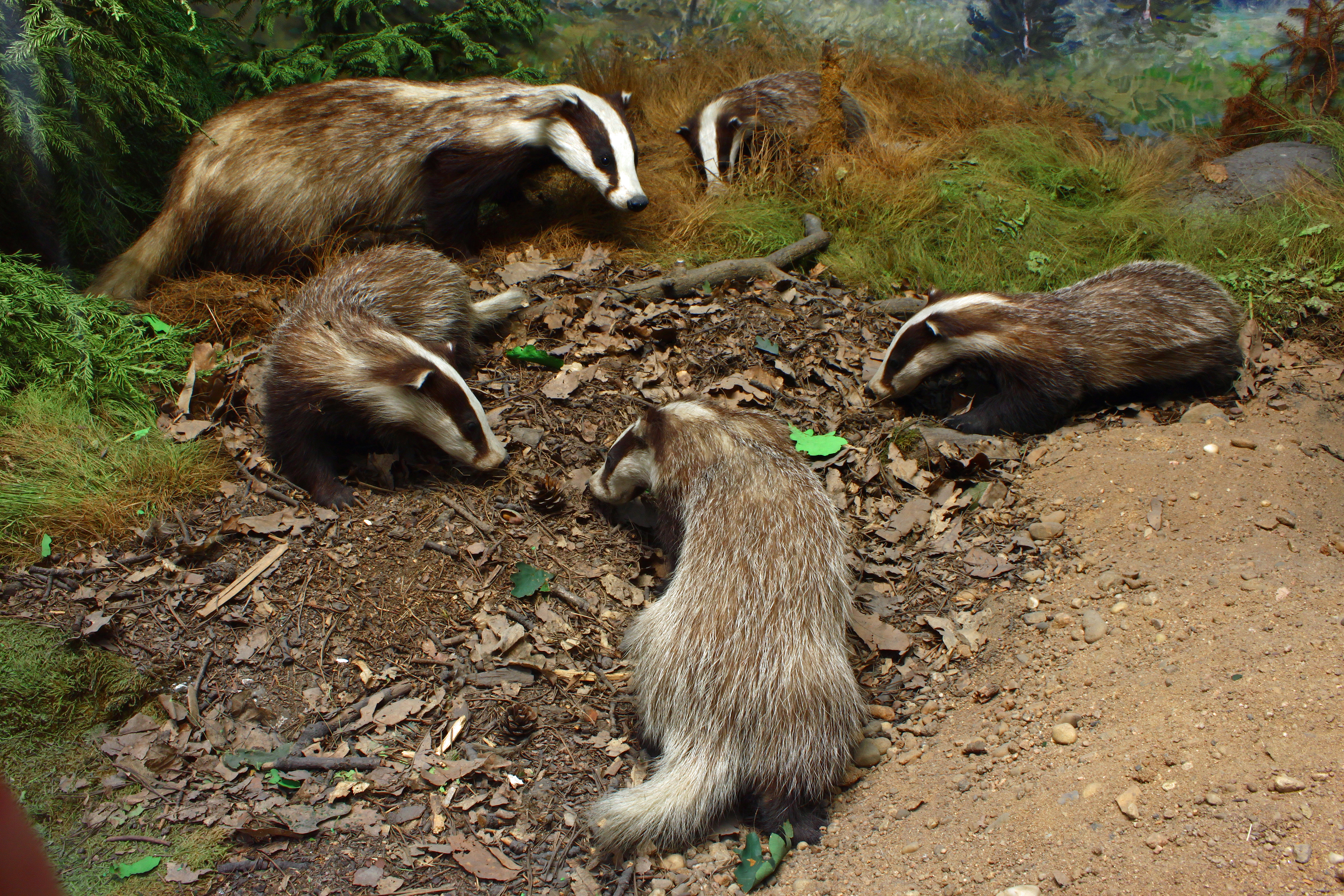 Meles meles, Mustelidae, European Badger; Staatliches Museum für Naturkunde Karlsruhe, Germany. The coat is used in homeopathy as remedy: Meles meles (Meles-m.)